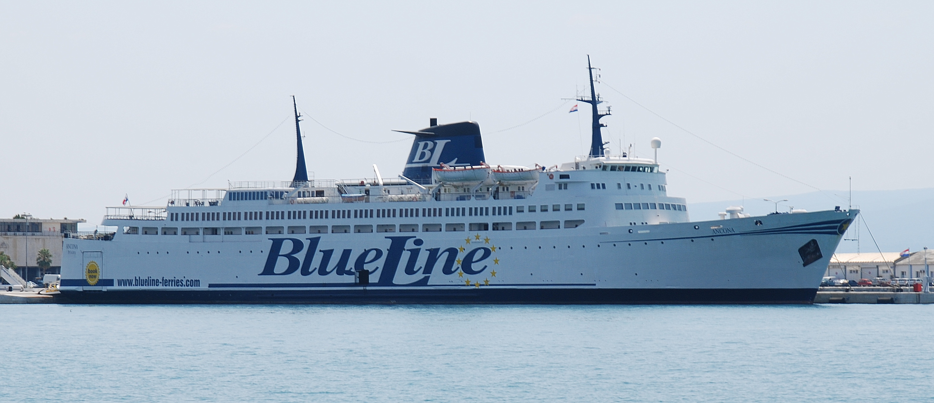 Ferry MV Ancona, Blue Line, in Split, Croatia